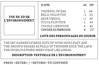 Diagram showing the functionalities of the interface of exploration in the video game Pool of Radiance (1988).